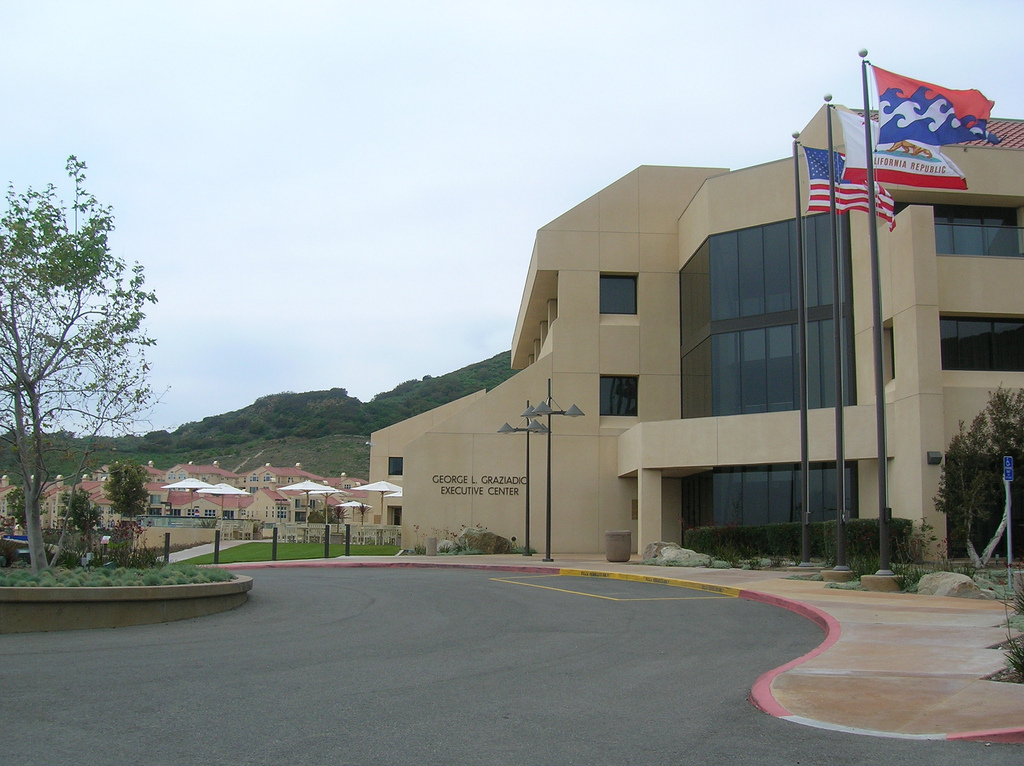 Pepperdine's Drescher Graduate Campus includes the Graziadio Business Center.